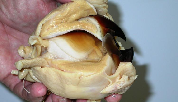 Giant squid beak and buccal mass